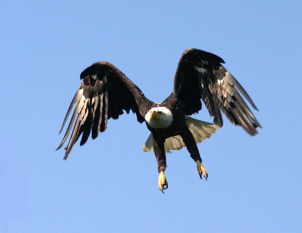 Bald Eagle at the Gulkana River, Sourdough, Alaska. Image donated by Doug Alcorn.